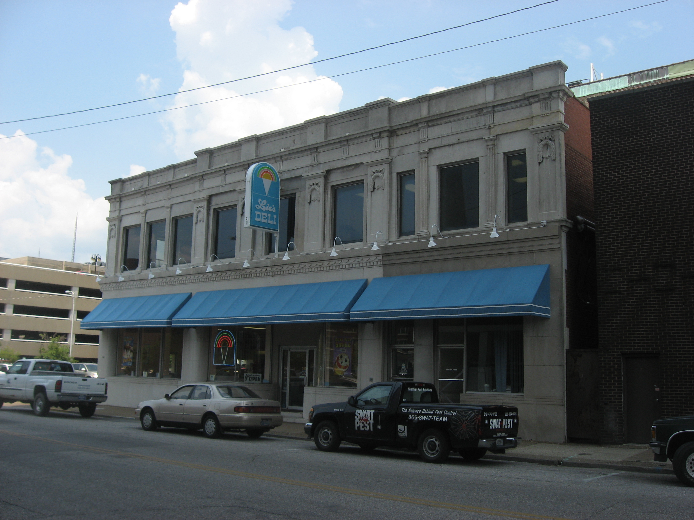 Front of the former Evansville Journal News building, located at 7-11 NW. Fifth Street in Evansville, Indiana, United States. Built in 1910, it is listed on the National Register of Historic Places.